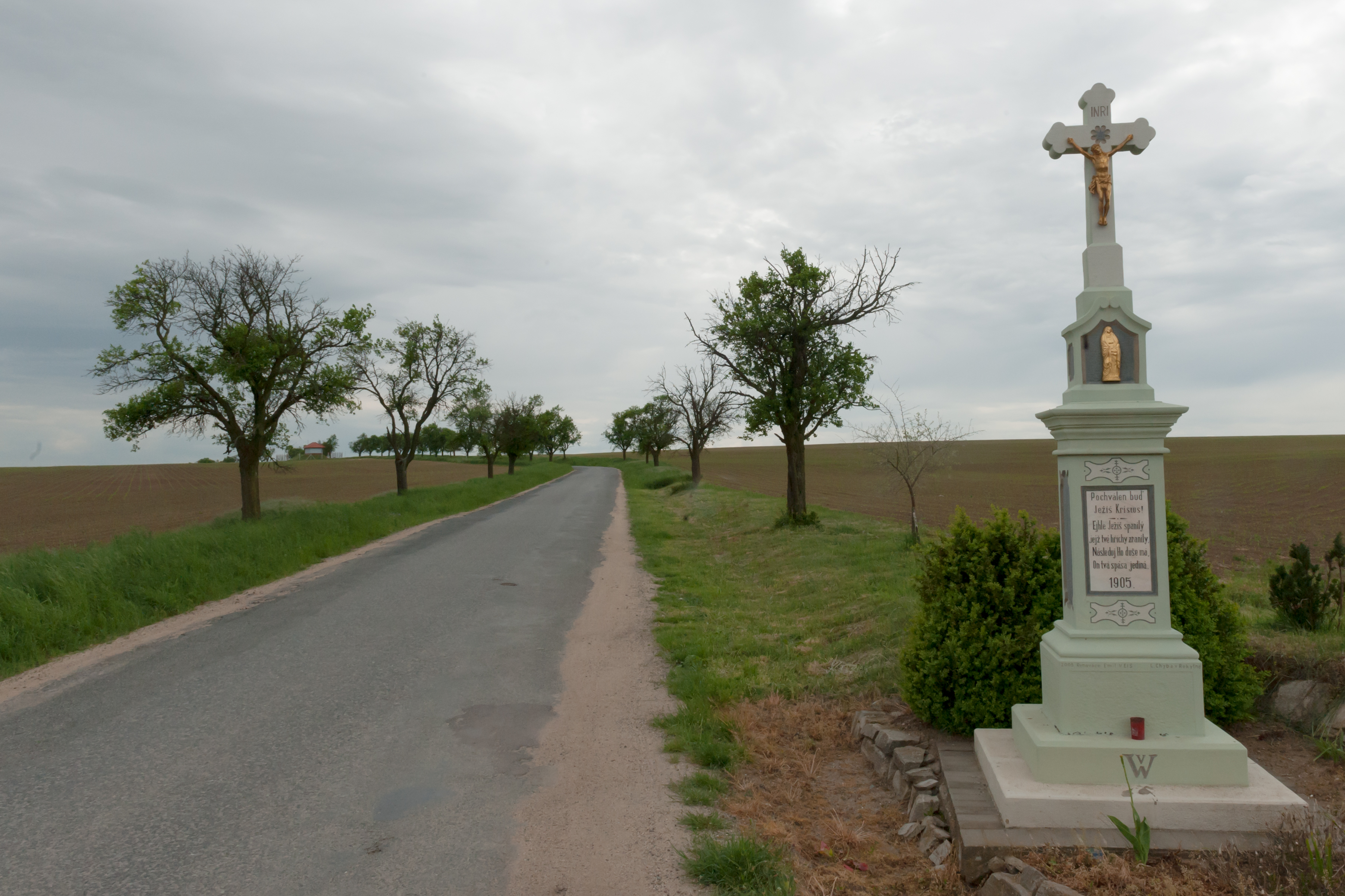 Wikitown Hustopeče: Morašice